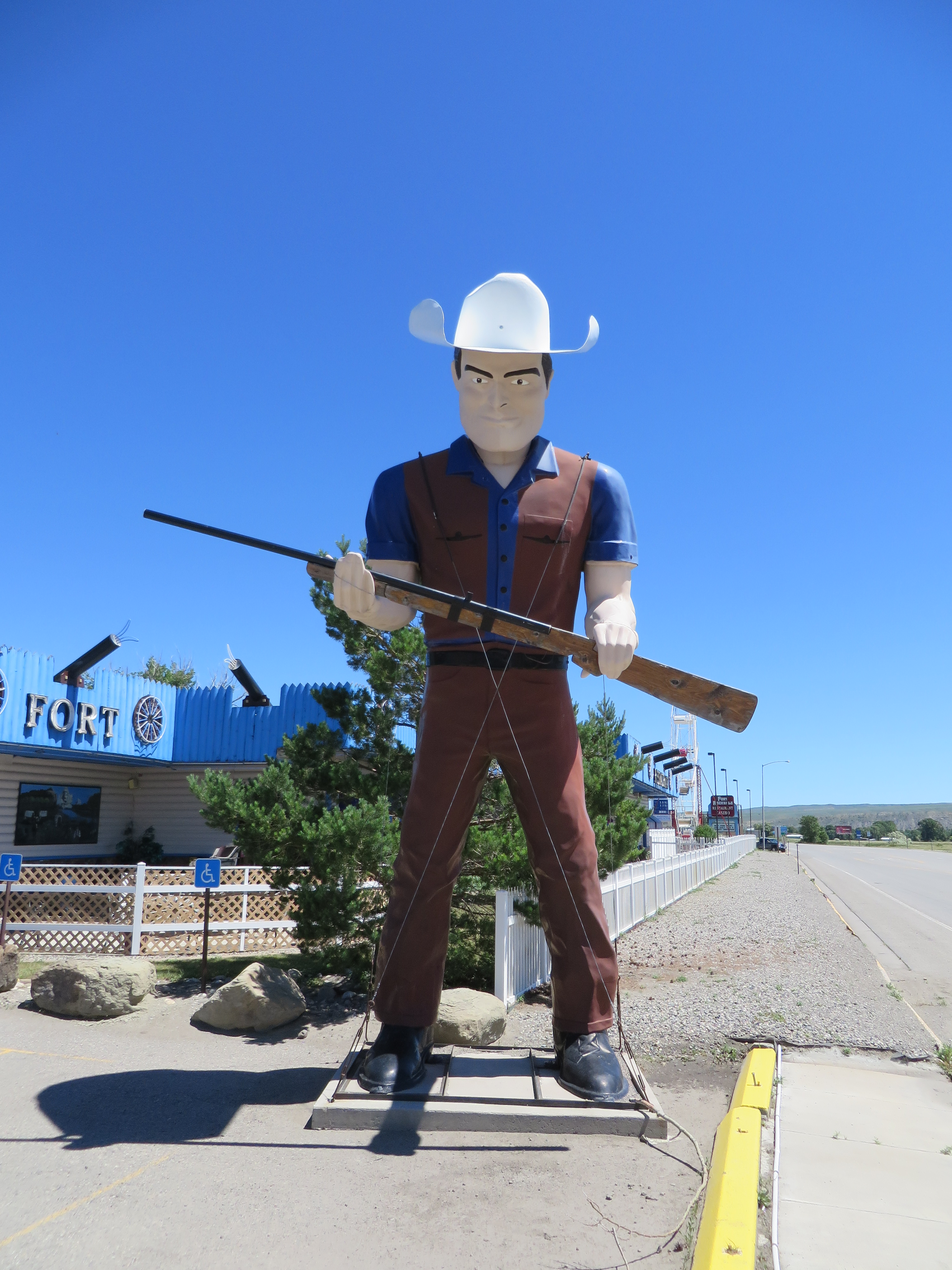 Casino Dude Muffler Man at the Fort Rockvale Restaurant and Casino, 101 Rockvale Road, Joliet, Montana.